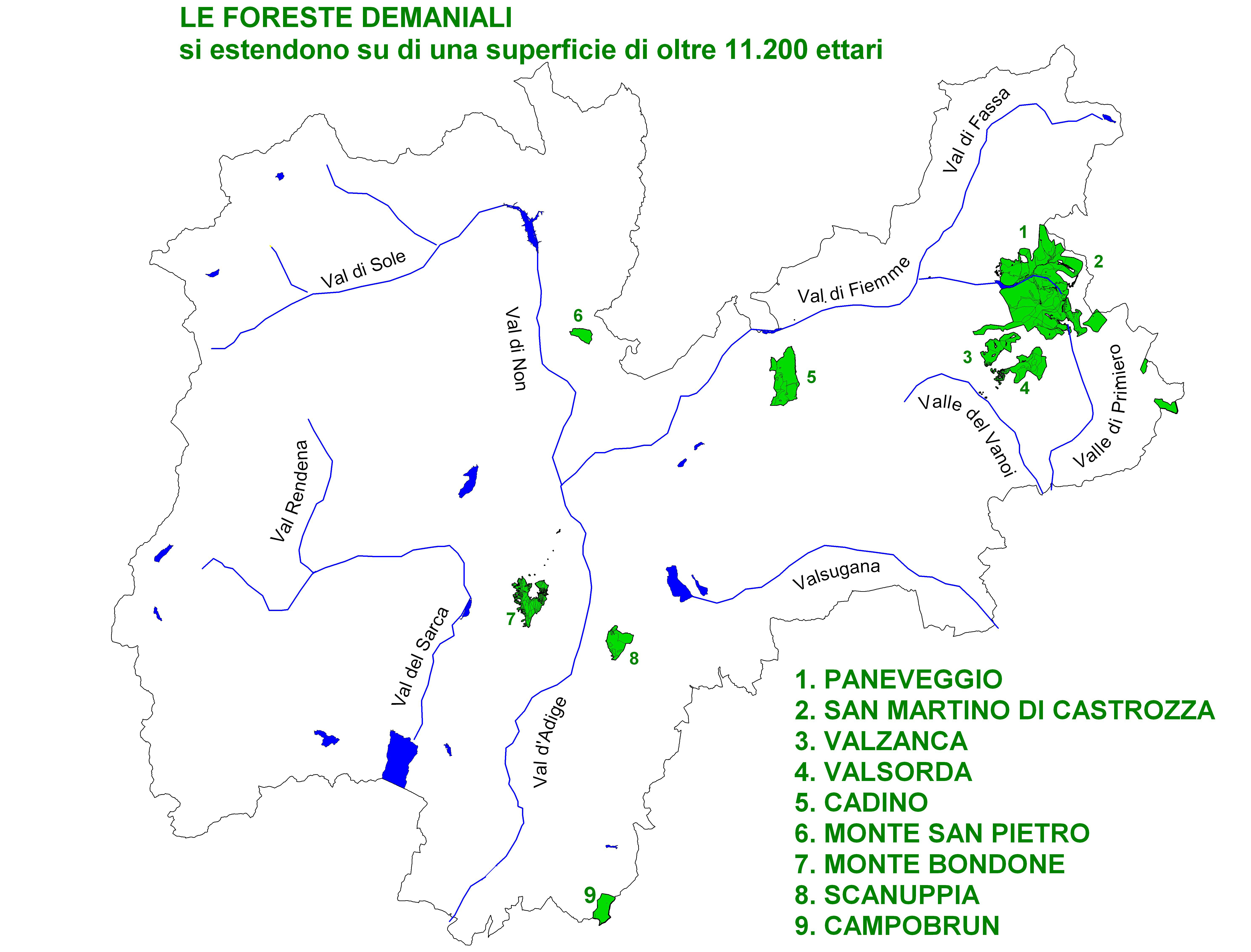 Localization map of Foreste Demaniali in Trentino, Italy